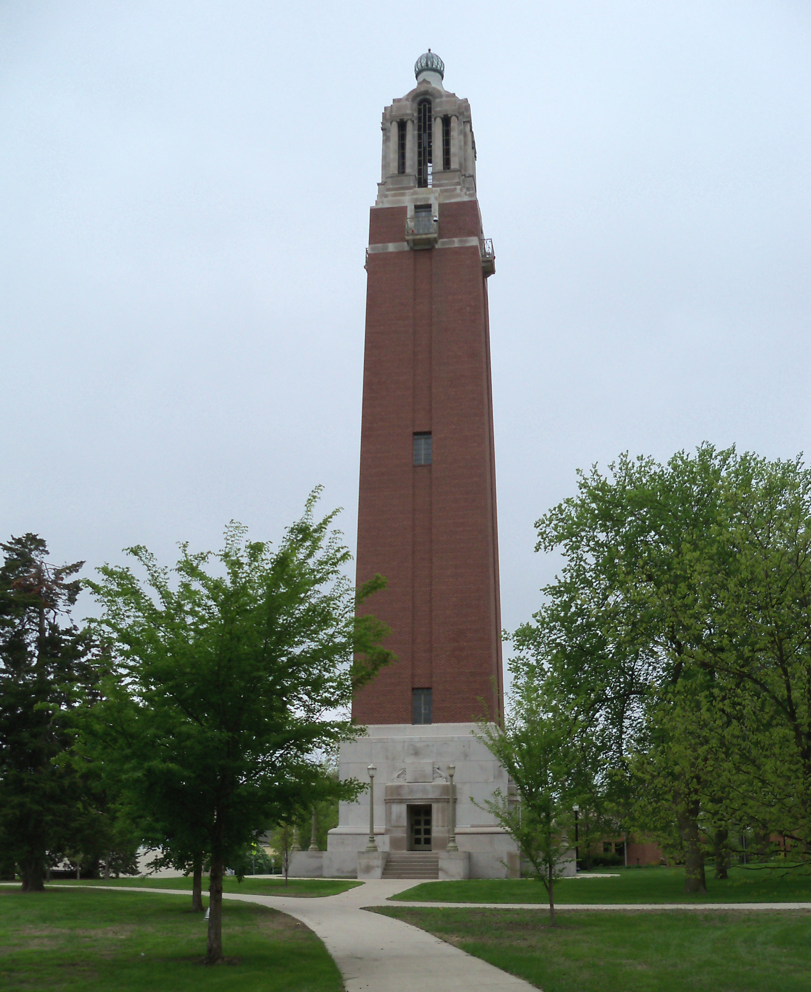 Coughlin Campanile on the campus of South Dakota State University in Brookings, South Dakota, USA.